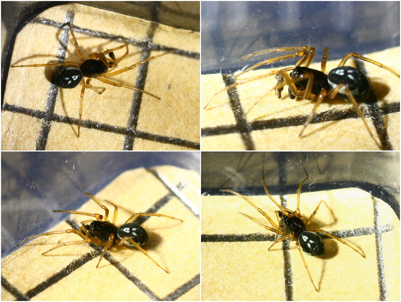 Pachygnatha degeeri (Tetragnathidae). From heath, Bricket Wood Common, Hertfordshire, England, 23rd March 2010. More Info... Species Summary from Spider Recording Scheme Map from NBN Gateway Pavouci CZ Jorgen Lissner - male